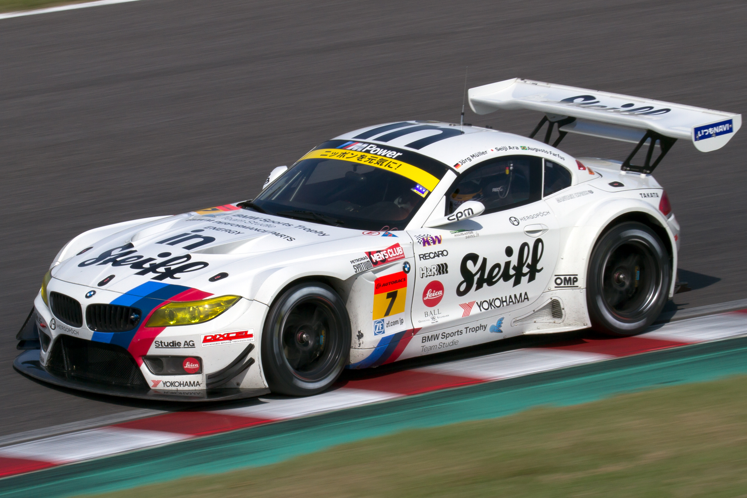 Super GT 2014 Rd.6 Suzuka 1000km: Seiji Ara (Studie)